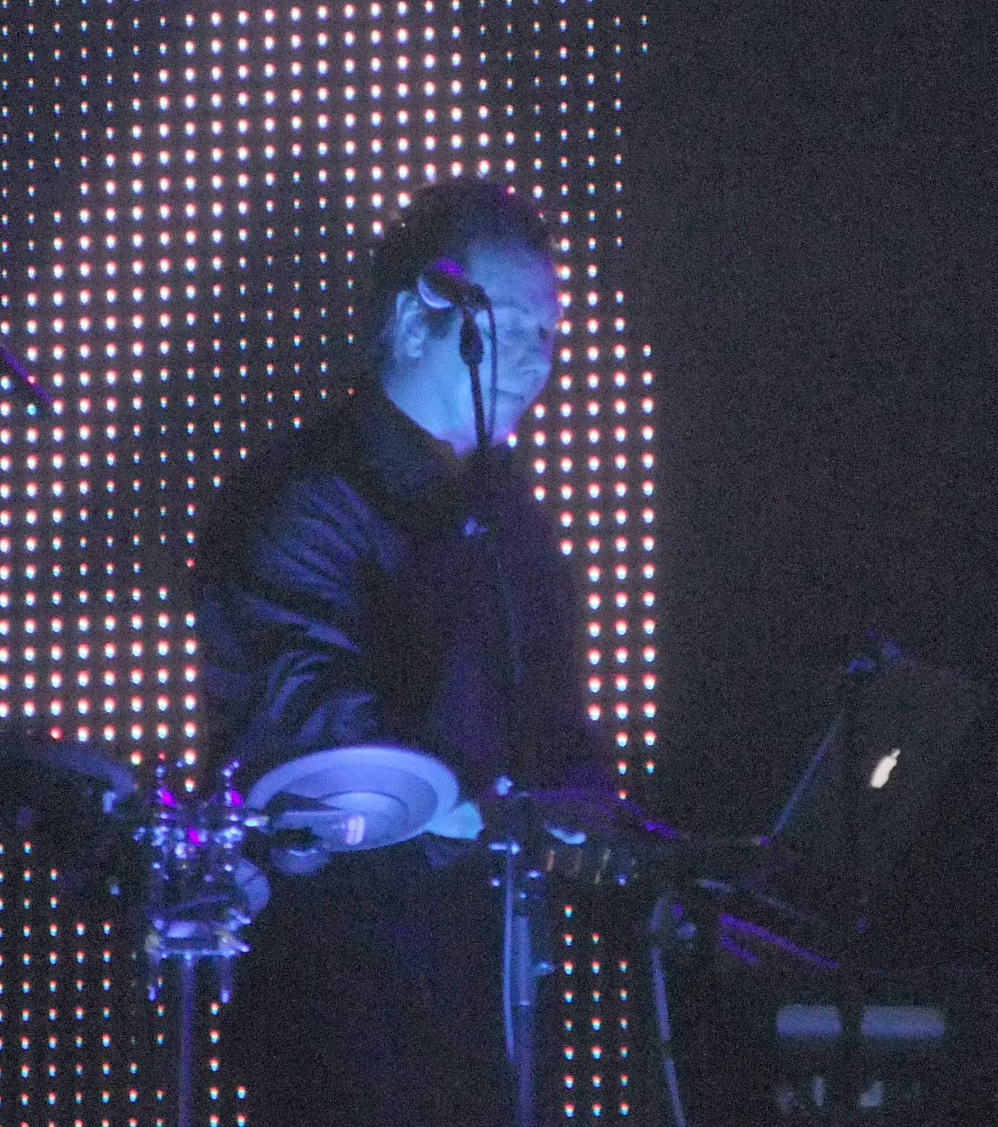 Warren Cann at The Roundhouse, 30th April 2009